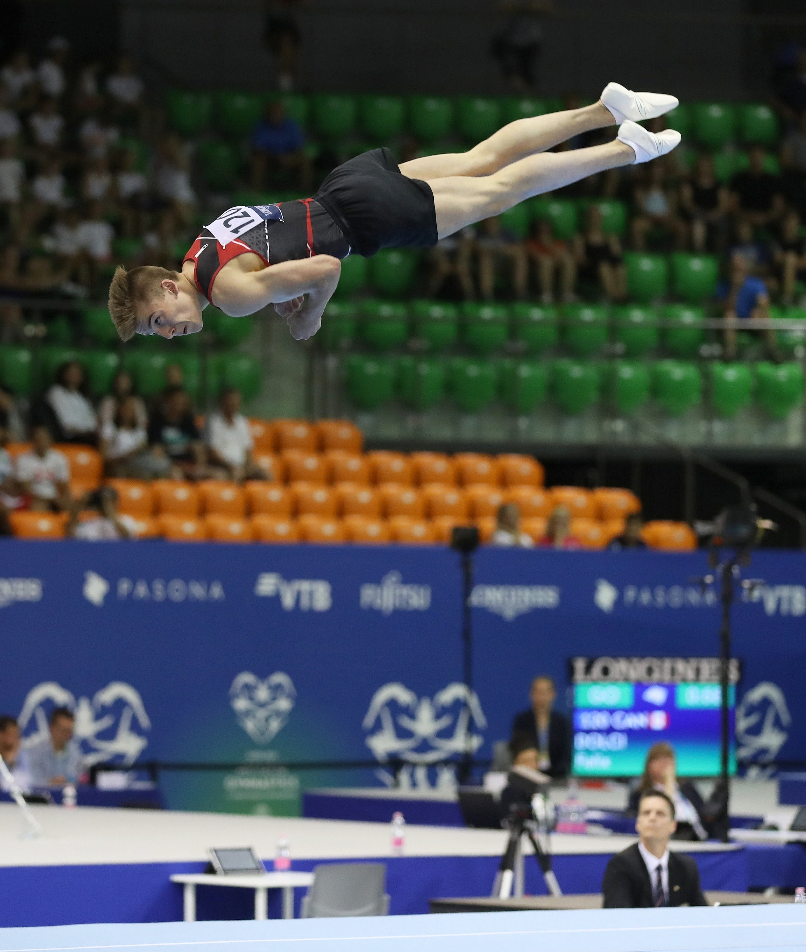 Floor exercise during the boys' apparatus finals at the 1st FIG Artistic Gymnastics Junior World Championships on 29 June 2019 in Győr, Hungary. Depicted: Félix Dolci.